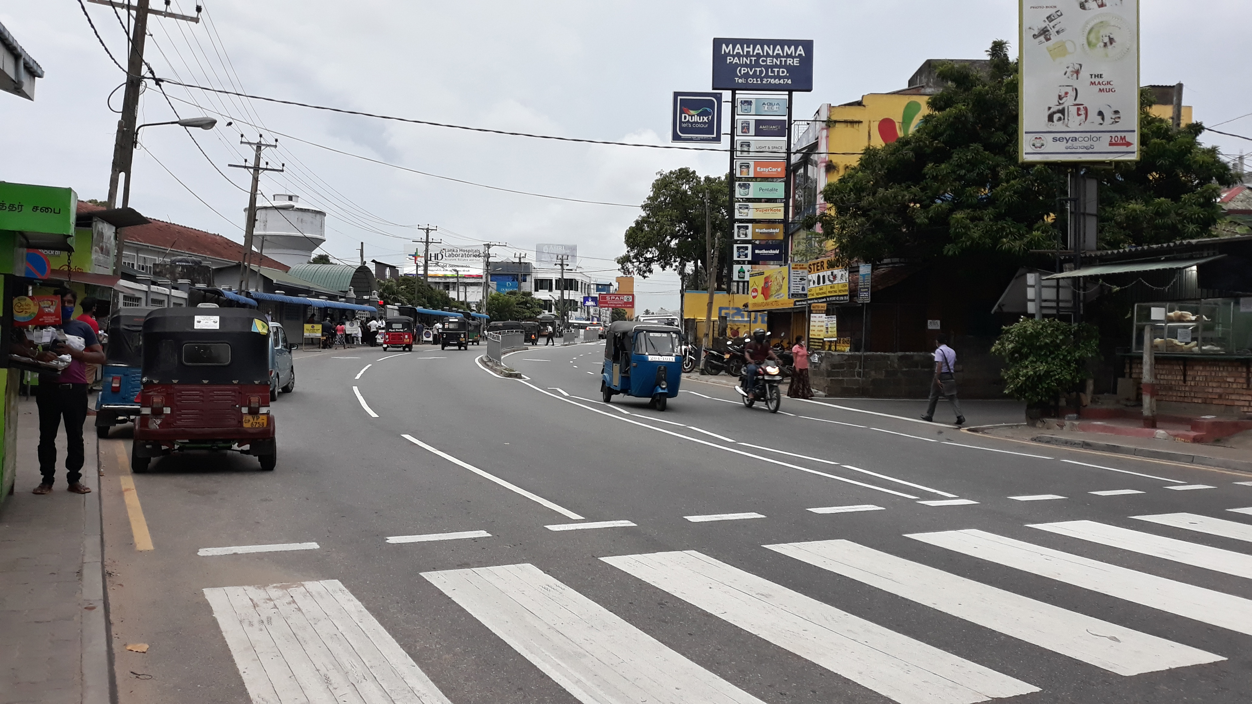 Kalubowila town 2020 July 09